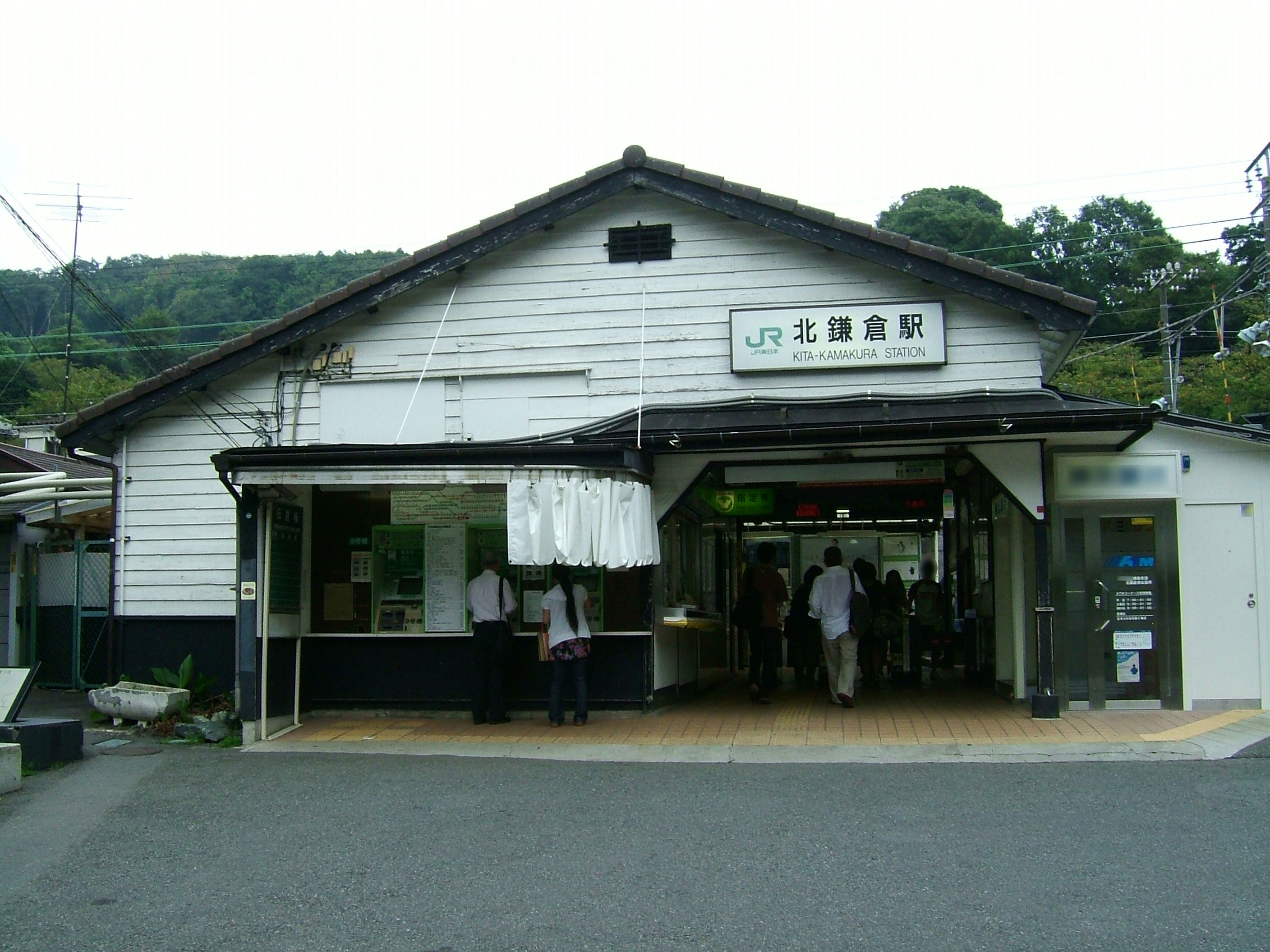 Kita-Kamakura Station building (East Japan Railway Yokosuka Line)